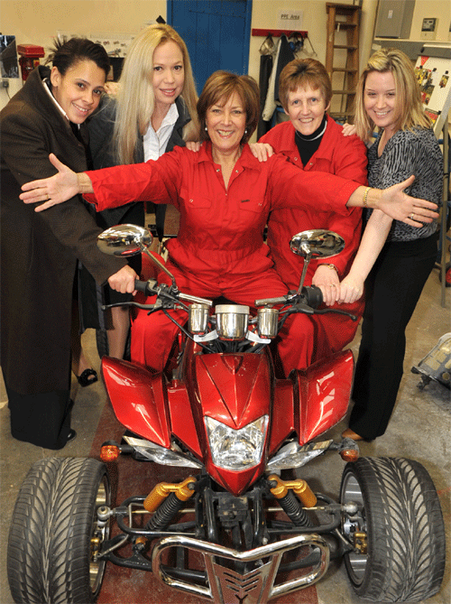 A group from the Birmingham office recently visited the Barnardo’s Black Country Wheels Project and were joined by Lynda Bellingham, an ambassador for Barnardo’s, or perhaps better known as the famous “Oxo lady” and more recently for her regular slot on the ITV chat show Loose Women. Lynda is currently starring at the REP in Calendar Girls and of course the group managed to get their very own calendar autographed. The project provides vocational and practical mechanical skills for young boys and men aged 12 to 18 who are excluded from or struggling in mainstream education. Pictured right is project manager Kathryn Small, solicitor Donna Mcgrath project founder Jan Lear and paralegal Heidi Salter with Lynda riding one of the bikes from the project.